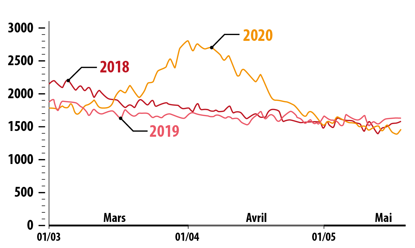 Number of daily deaths in France hihglighting the COVD19 peak